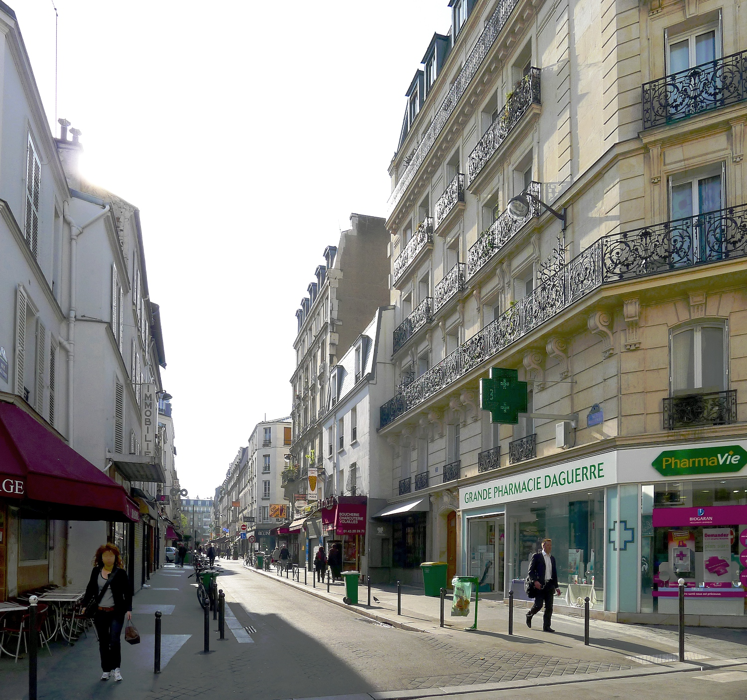 Daguerre street - Paris